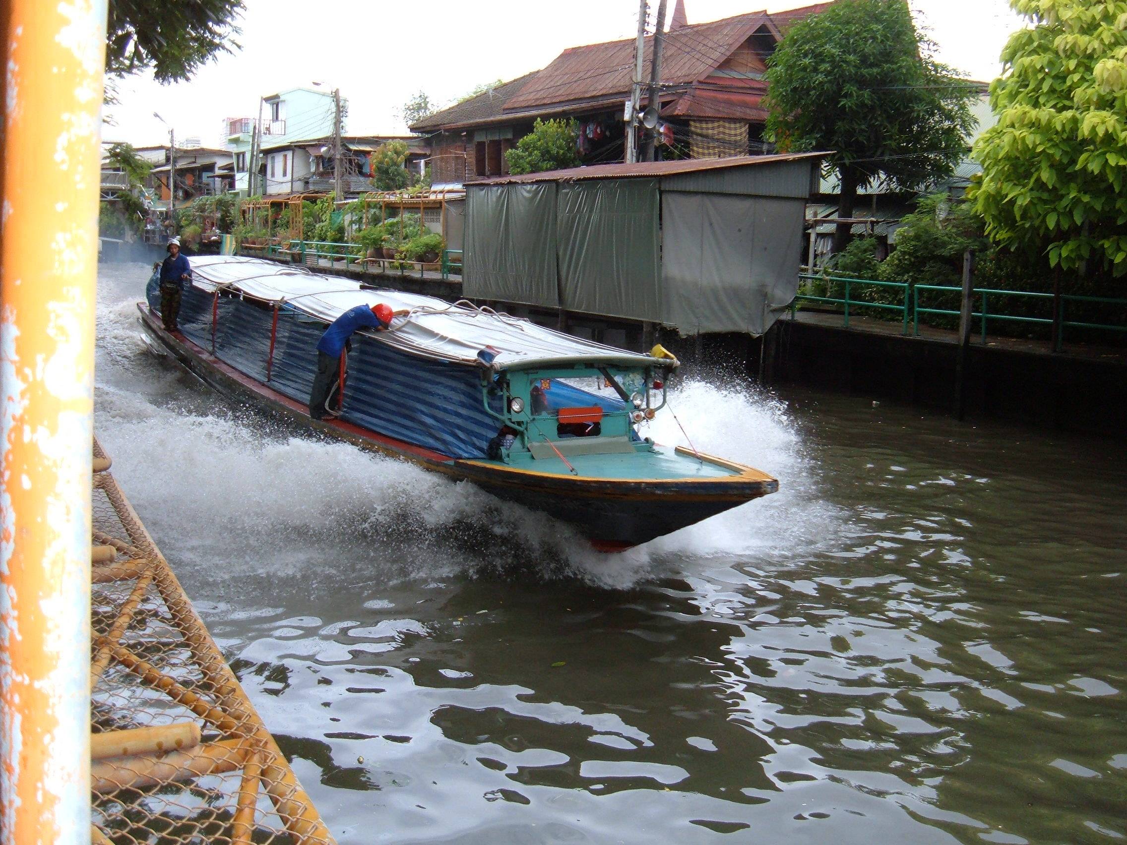 Watertaxi moving at high speed on the Khlong Saen Saeb in Bangkok, Thailand